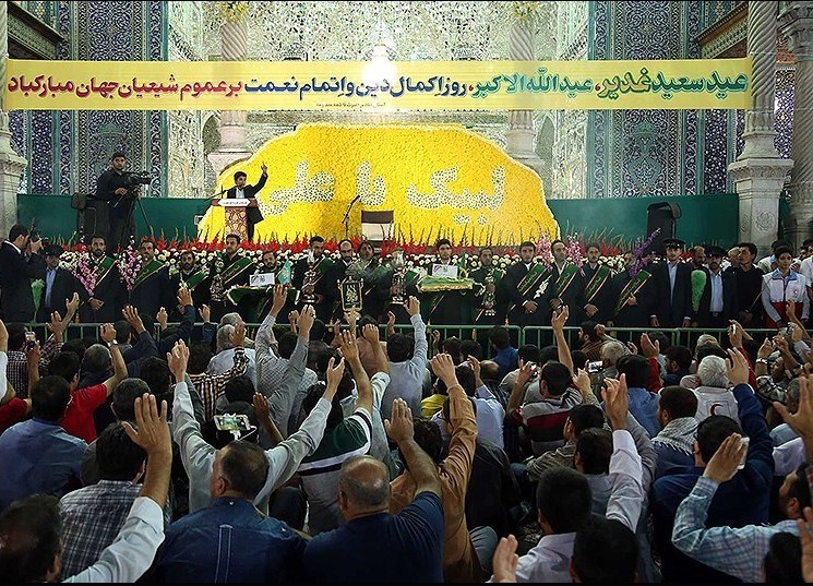 Eid al-Ghadeer celebration in Fatima Masumeh Shrine - Iran September 1395